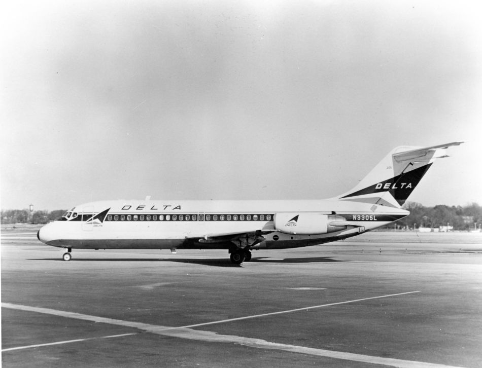 Delta Airlines DC-9 N3305L